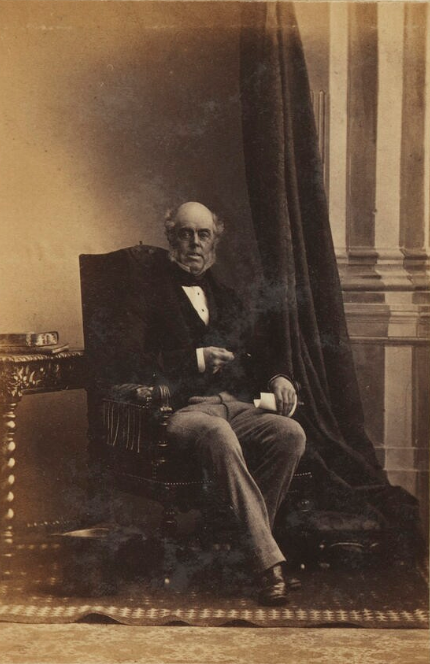 John Moyer Heathcote by Camille Silvy - albumen print - 9 October 1860; 86 mm x 56 mm